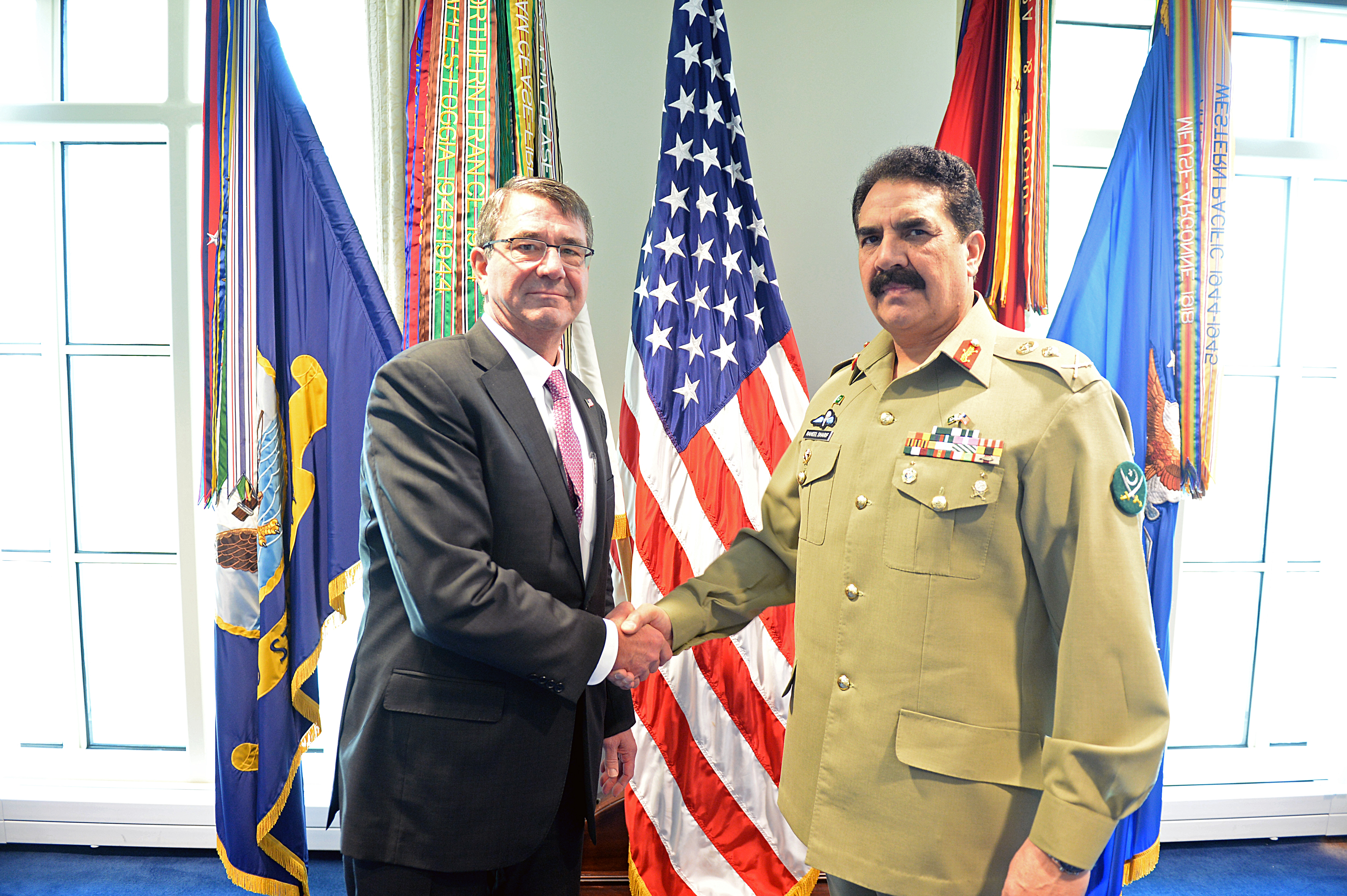 Secretary of Defense Ash Carter and Pakistan's Chief of Army Staff General Raheel Sharif greet at the Pentagon, Nov. 17, 2015.(DoD photo by U.S. Army Sgt. First Class Clydell Kinchen)(Released)